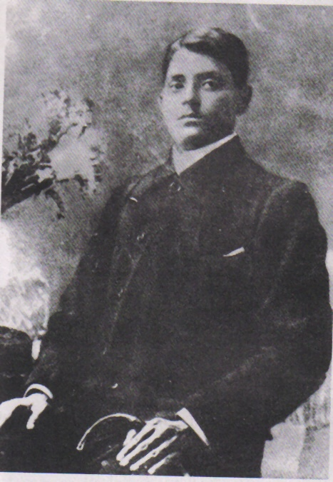 Bagha Jatin at the age 24, Darjeeling, 1903. Published in India before 1946, so public domain. From the private collection of Prithwindra Mukherjee.